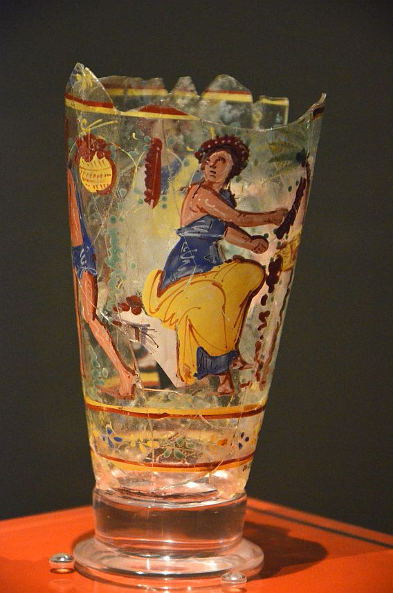 Begram Painted Goblet Depicting Figures Harvesting Dates. Glass made in Roman Egypt, 1st Century C.E., Begram Room 10 .